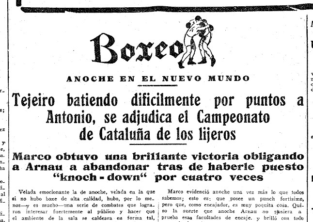 Newspaper cutting: Angel Tejeiro, lightweight champion of Catalonia, Mundo Deportivo, may 20, 1927, p2